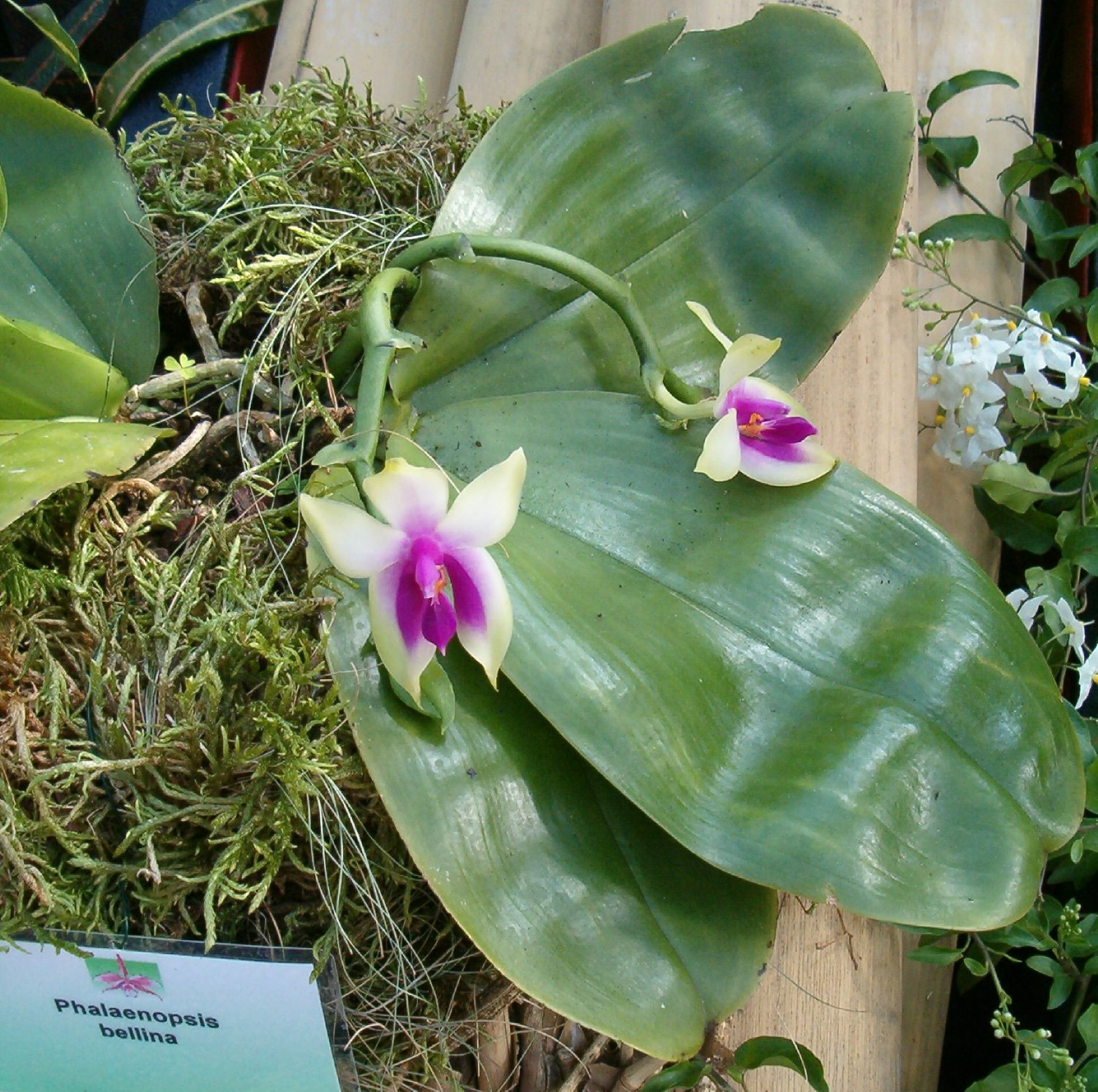 Phalaenopsis bellina, Habitus and Flowers Location: Botanical Gardens Berlin - Orchid Exhibition